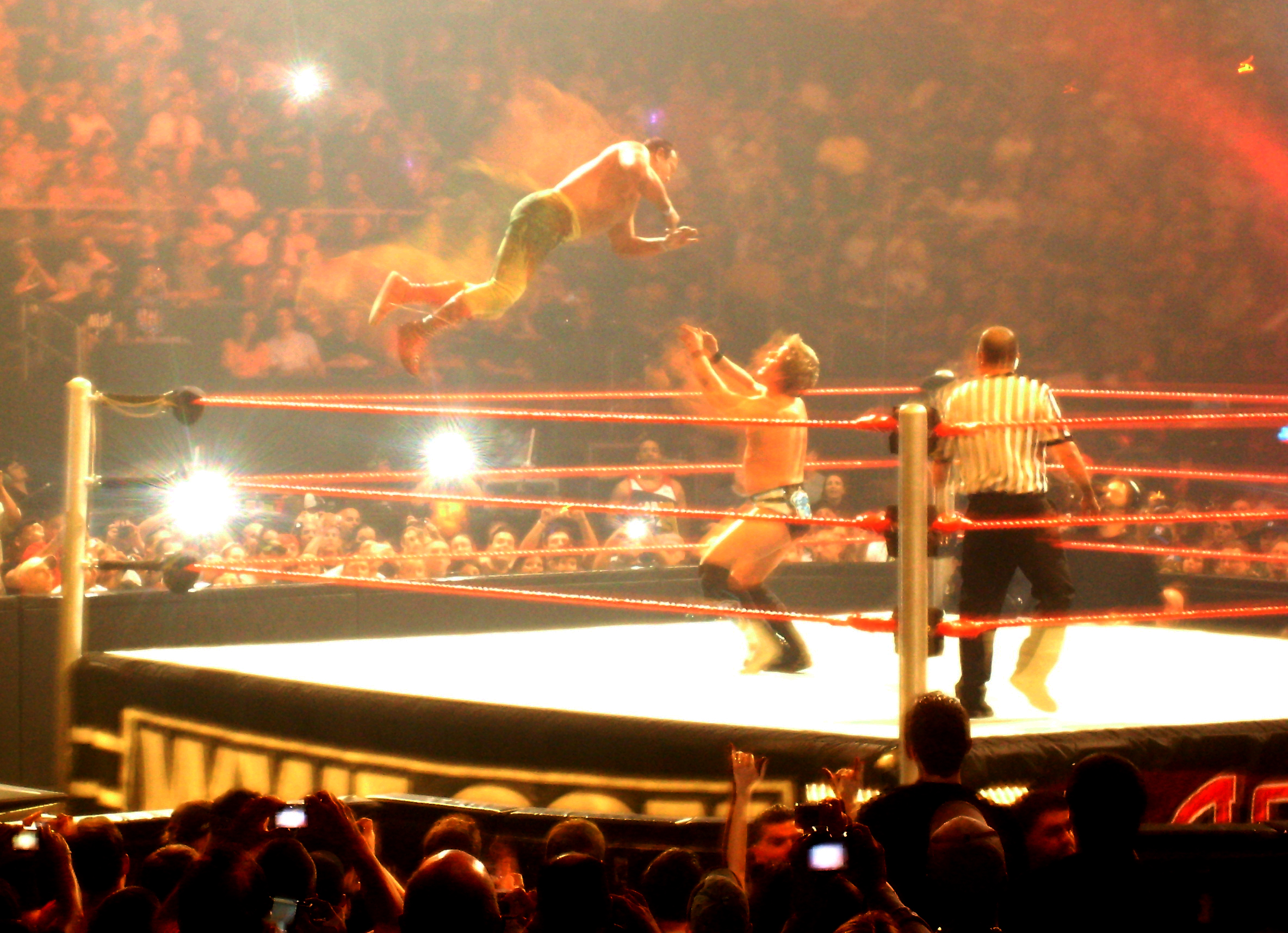 Ricky "The Dragon" Steamboat jumping toward Chris Jericho at Backlash 2009 in Providence, RI.